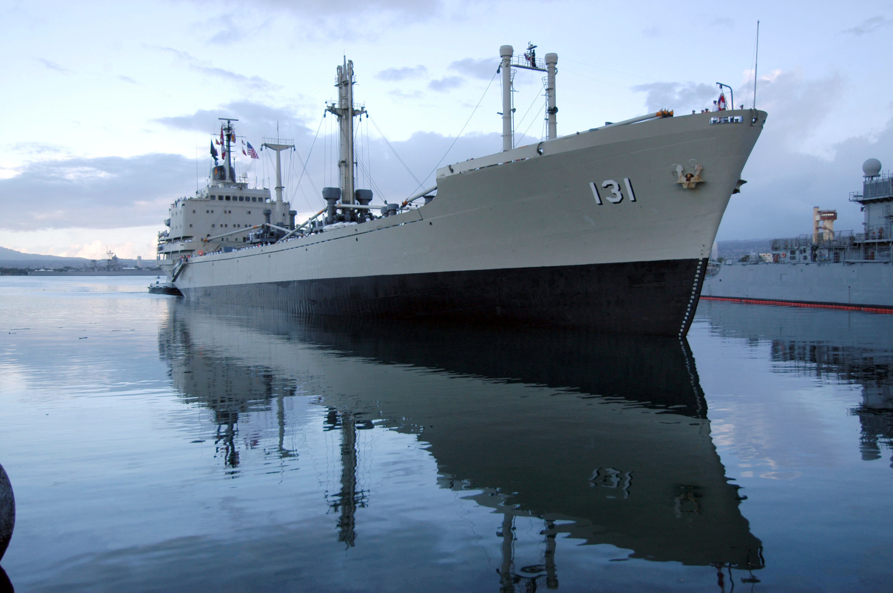 060123-N-1919W-002 Pearl harbor, Hawaii (Jan. 23, 2006) – The Peruvian Navy transport ship BAP Mollendo (ATC 131) arrives at Naval Station Pearl Harbor for a four-day port visit. BAP Mollendo, commanded by Cmdr. Erik Mariscal Villavicencio, has a crew of 134 enlisted crew members and 28 officers. While in Hawaii the crew plans to visit historic Navy sites throughout Oahu including a harbor tour of Ford Island, and USS Arizona Memorial. U.S. Navy photo by Journalist 2nd Class Devin Wright (RELEASED)